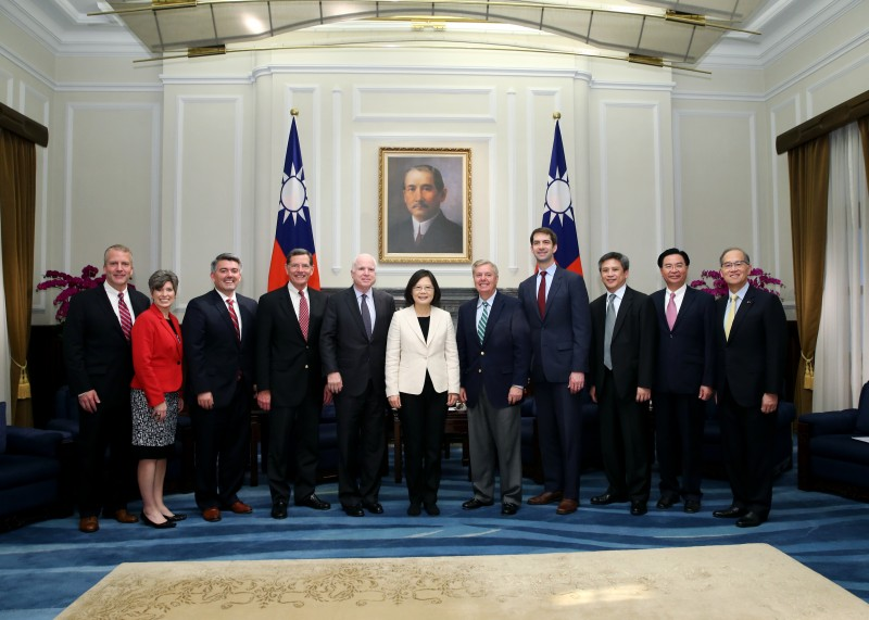 President Tsai meets with a delegation led by US Senate Armed Services Committee Chairman John McCain. (2016/06/05)